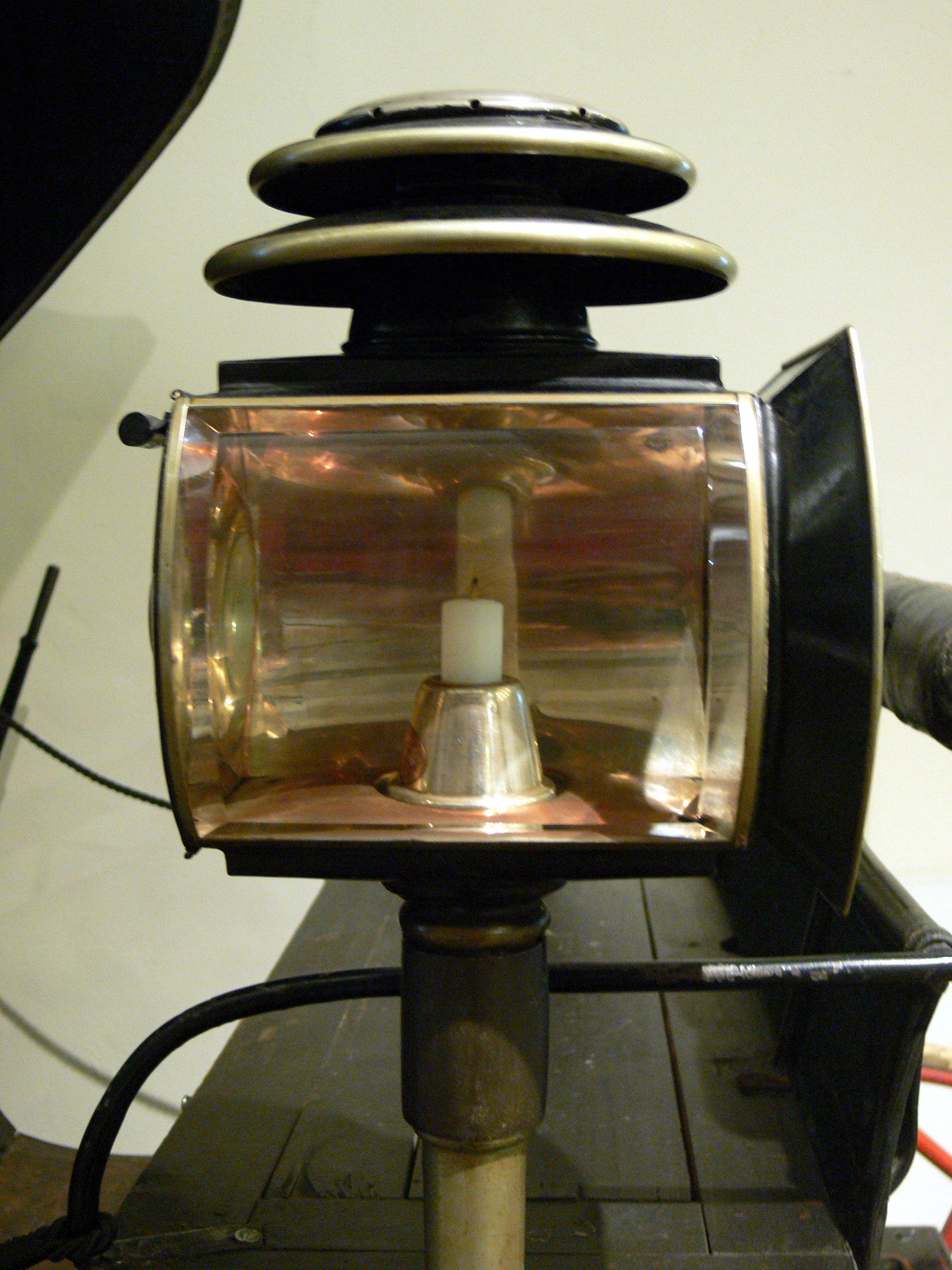 Technical Museum Vienna. Benz Victoria car ( 1893 ) - Lantern. (Actually, though this car resembles a Benz Victoria at first glance, it was originally a three-wheel Benz Patent-Motorwagen Model 3 built in 1893 for Eugen Zardetti which he had converted in 1898 to four wheels with a larger front seat.)